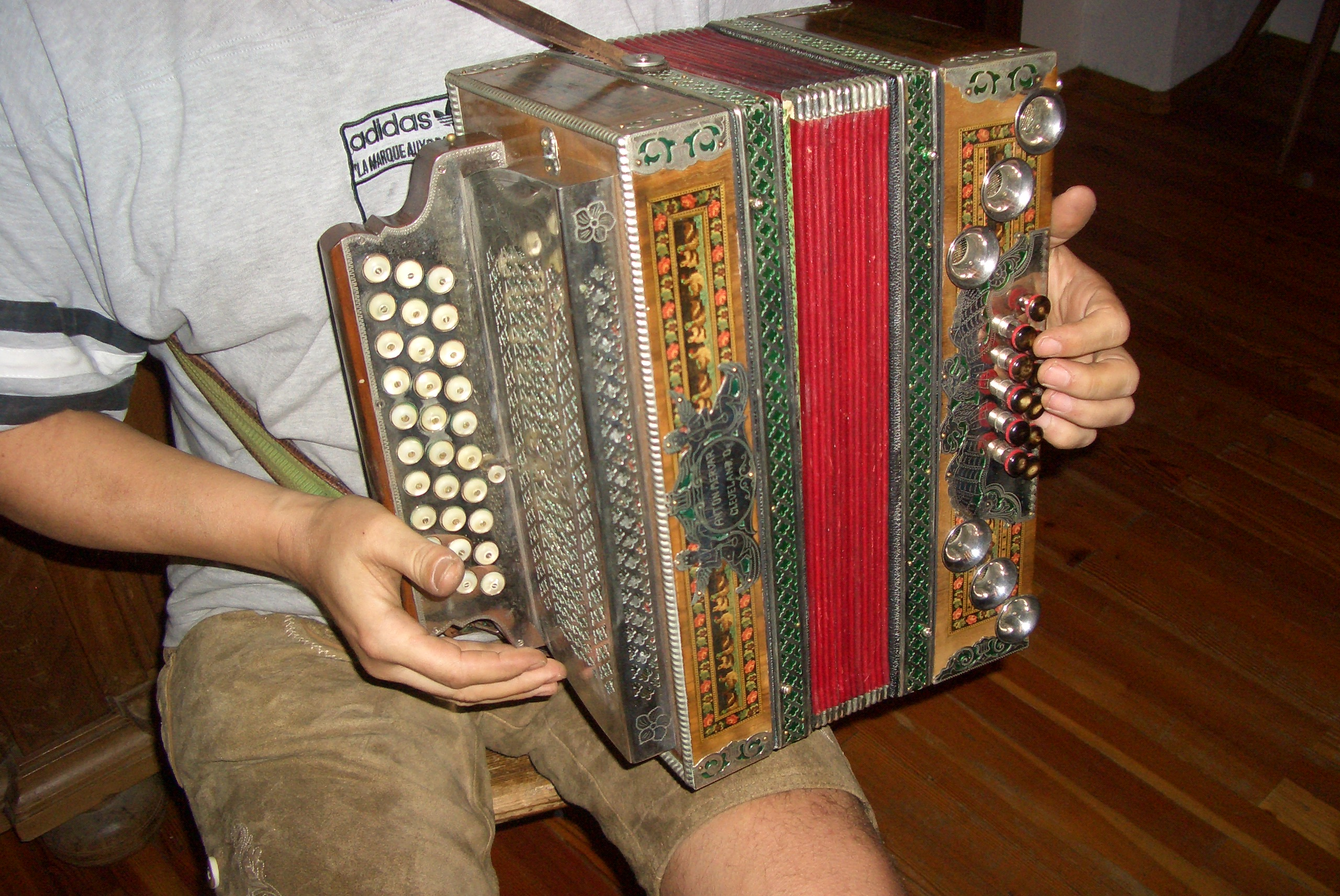 Anton Mervar Akkorcordeon Serialnuber 1268